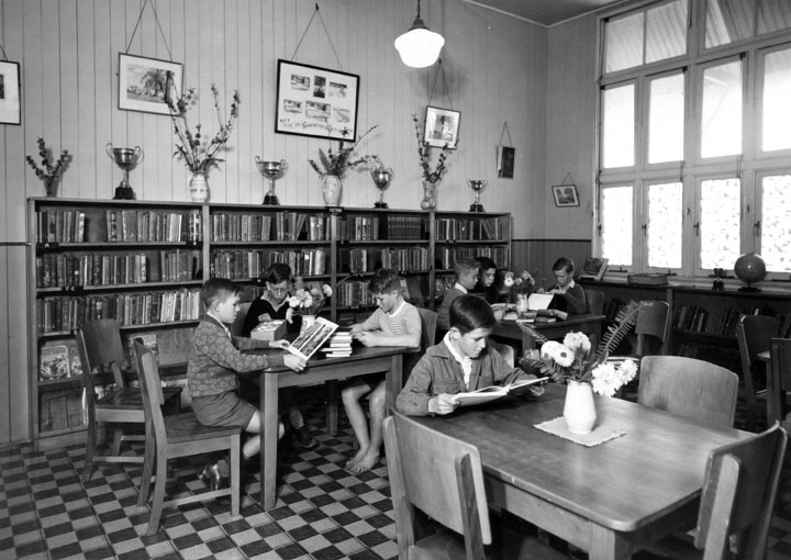 Library, Buranda State School. (Childen reading at tables)